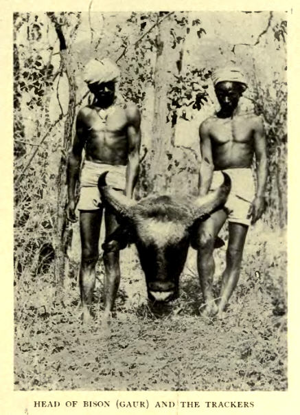 Bison head